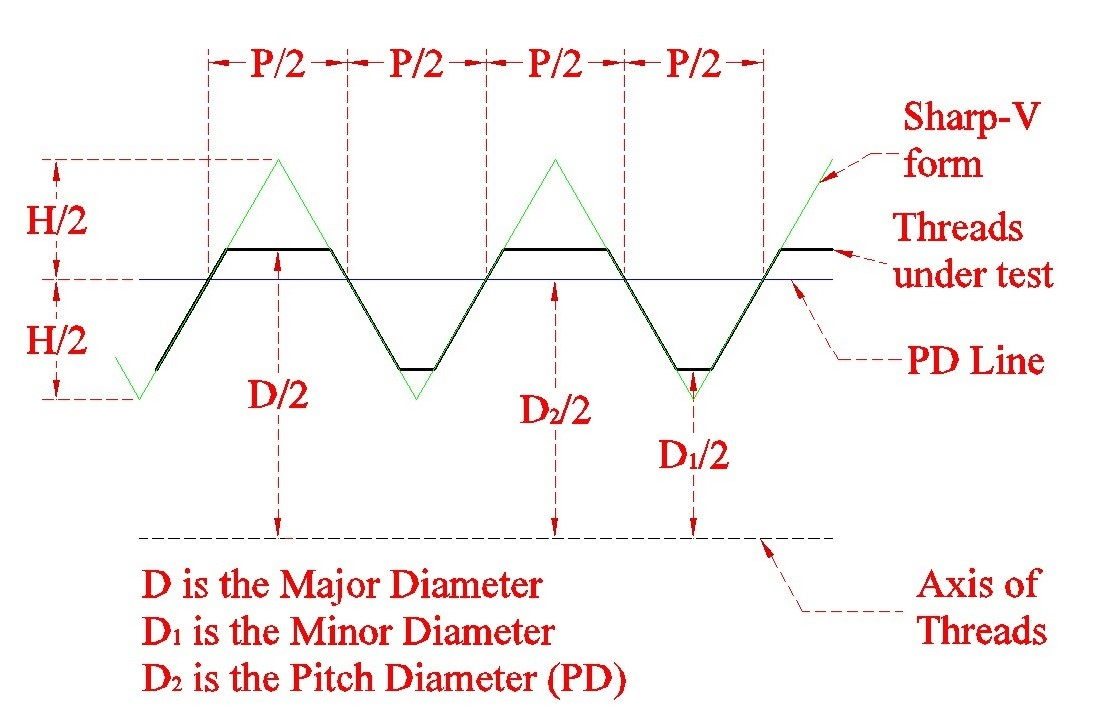 Diagram of the three diameters that characterize bolt/nut threads